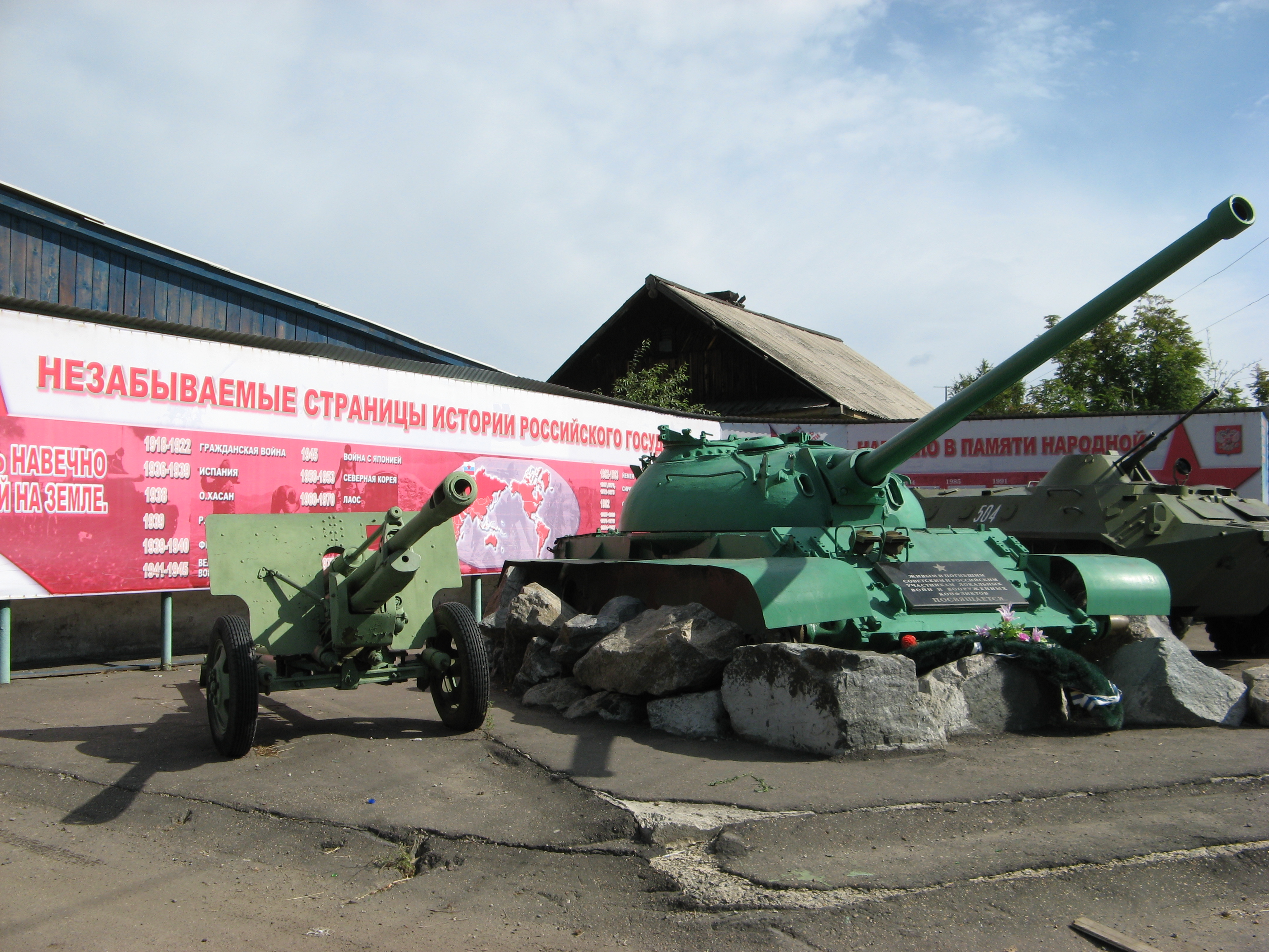 Monument near local history museum, Tayshet, Irkutsk region, Russia